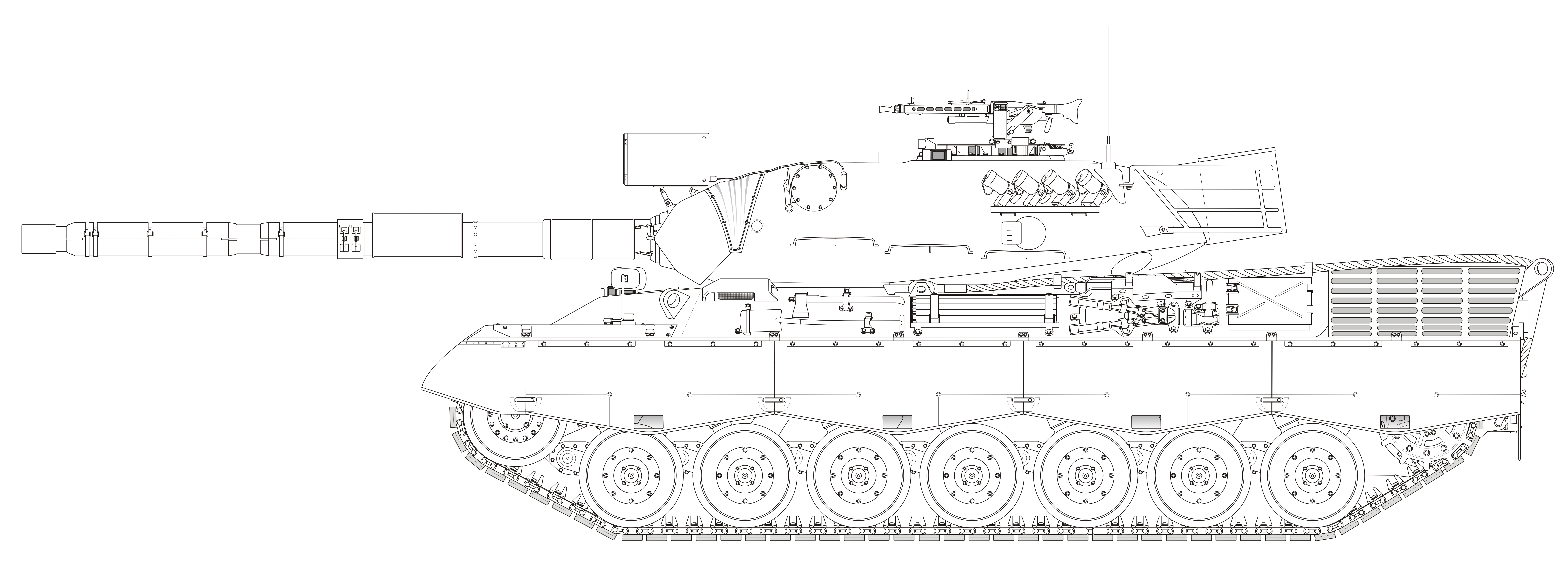 MBT Leopard 1 A1